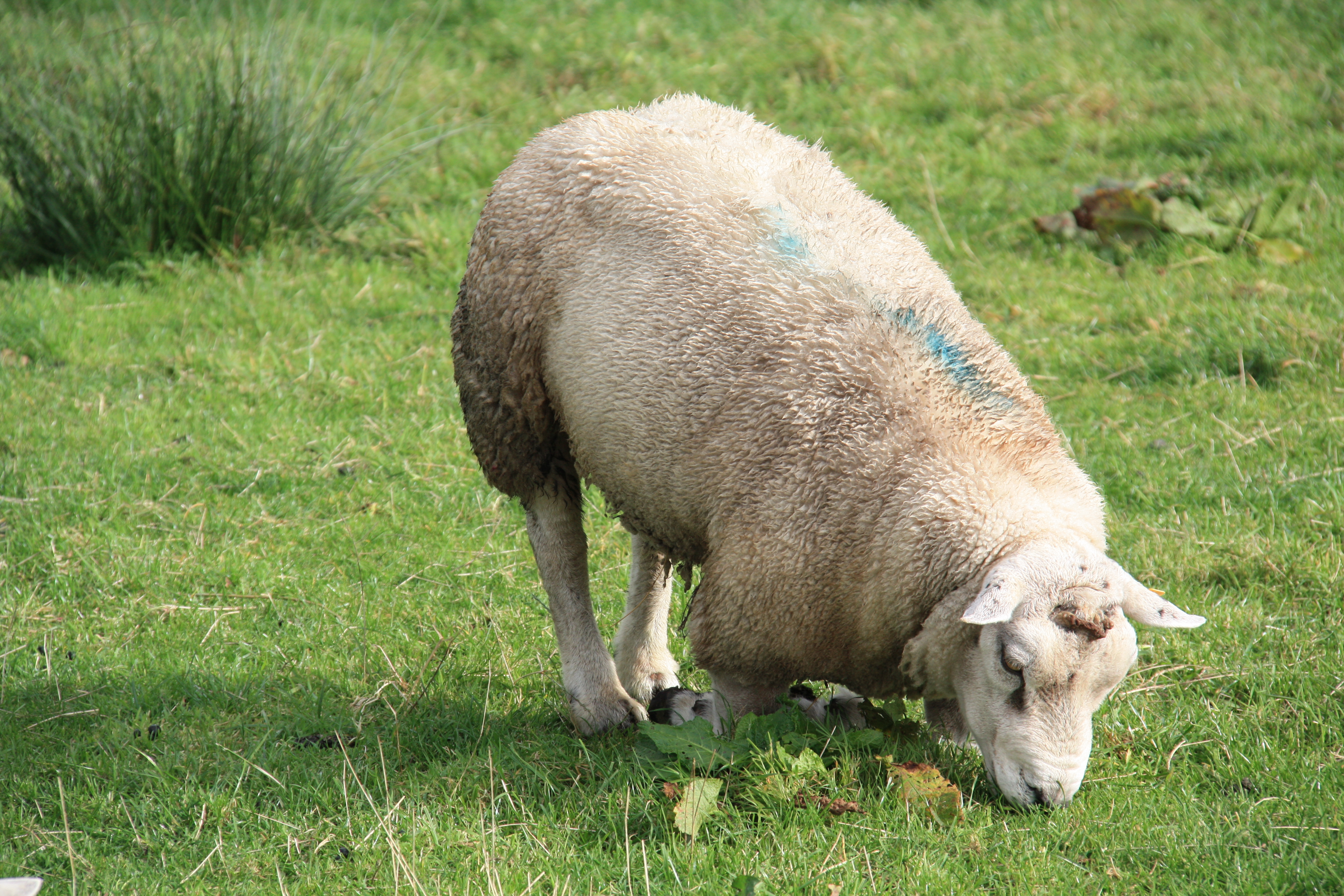 A sheep eating on its knees